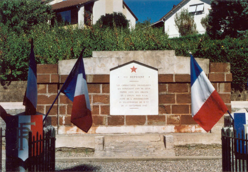 Monument in Villefranche de Rouergue "Ici reposent les combattants yougoslaves qui tombèrent loin de leur patrie sous les balles de l'ennemi nazi à la suite de l’insurrection de Villefranche-de-Rouergue du 17 septembre 1943"